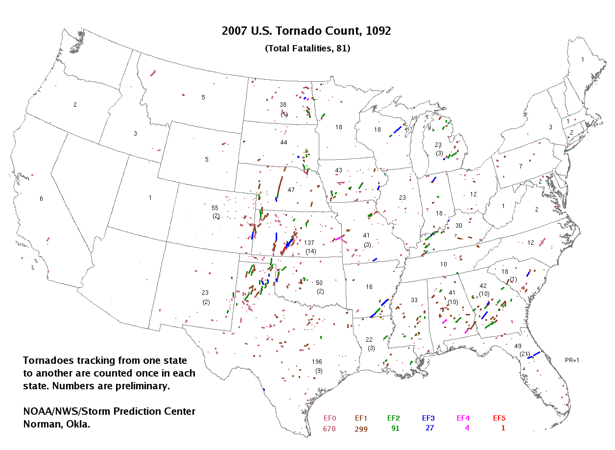 All tornado tracks w/ intensity in the US in 2007.